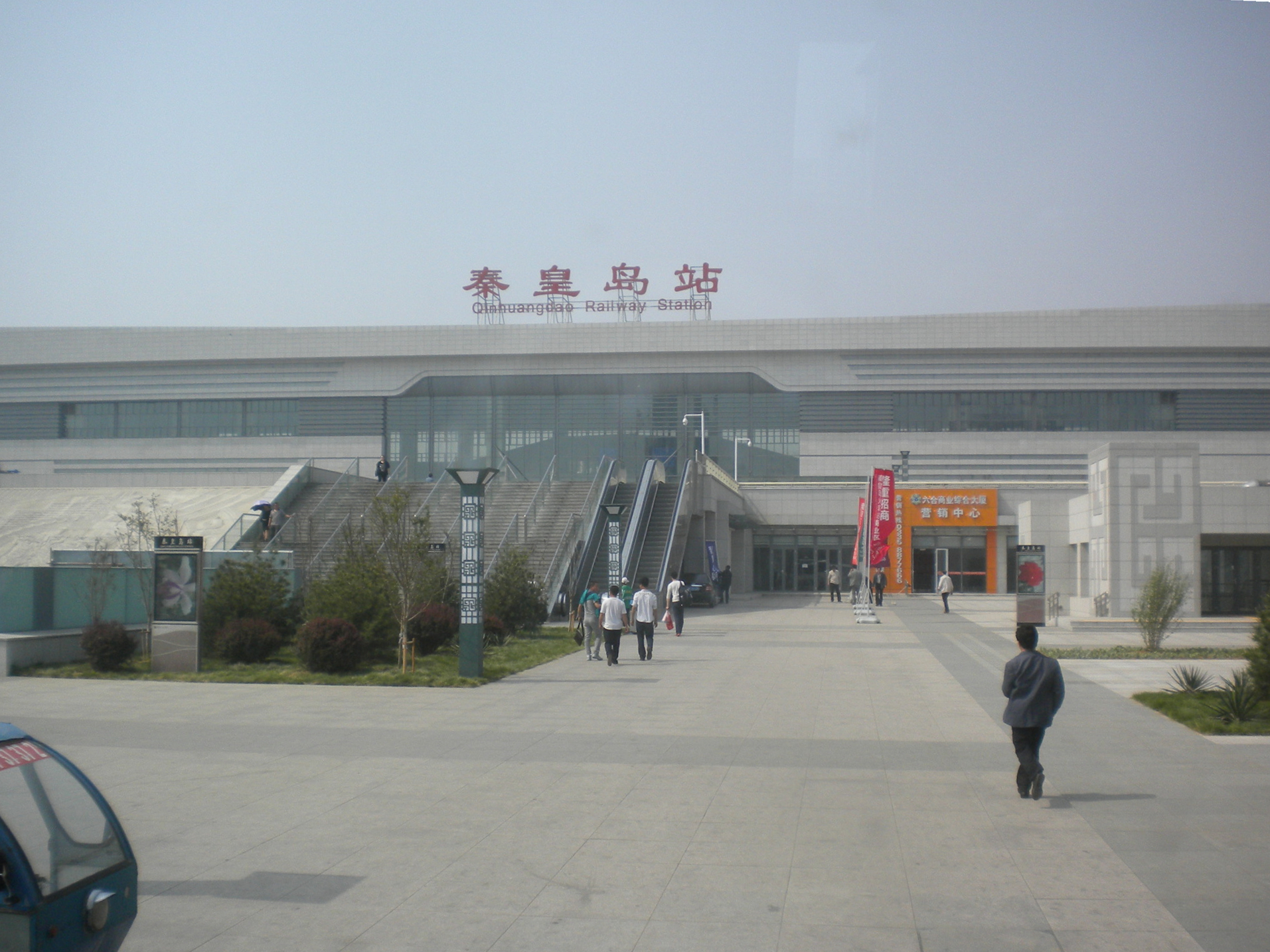 Out of Qinhuangdao Station.